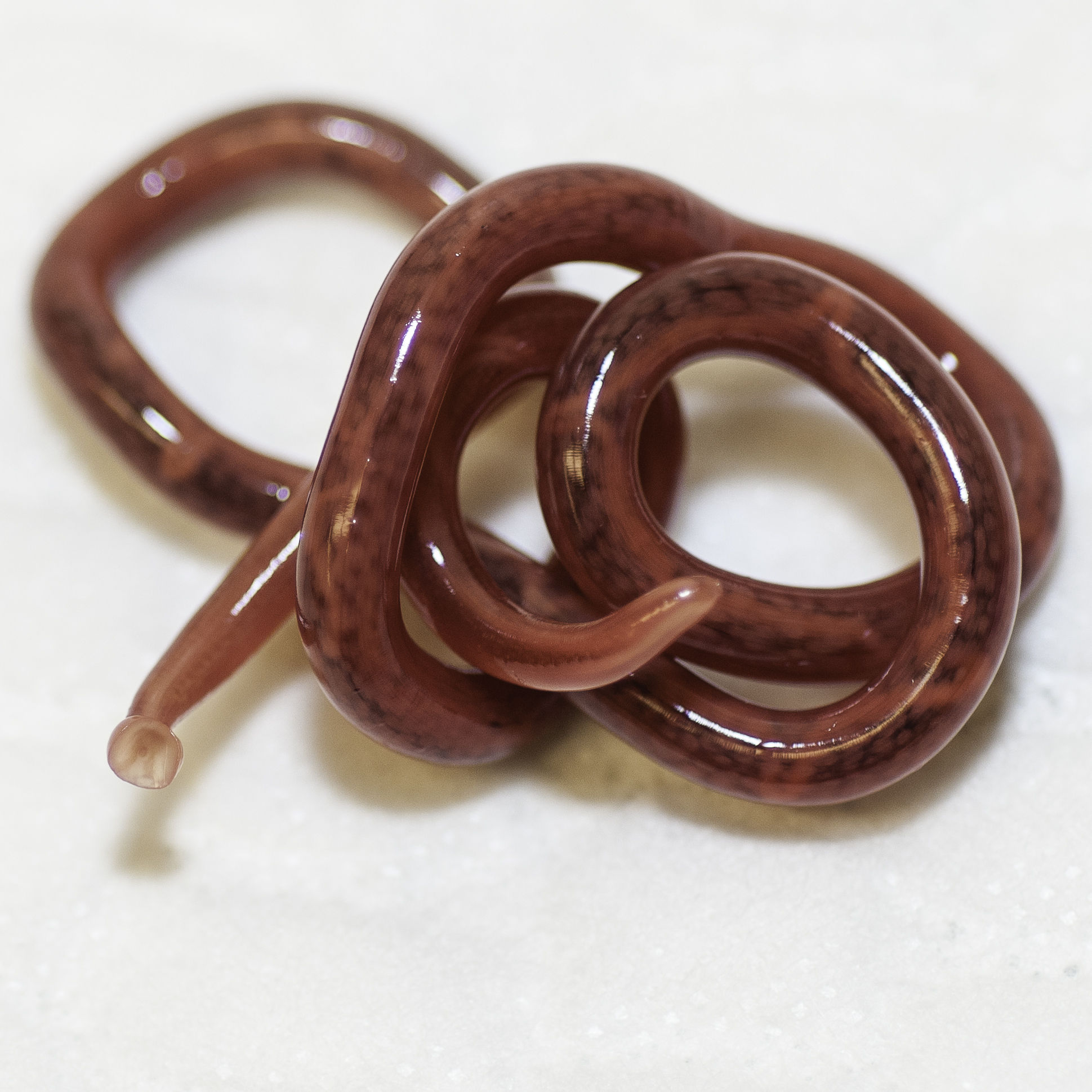 Photograph of Dioctophyme renale (Giant Kidney Worm) that was free floating in the abdomen of a dog. The room was removed surgically without complications. The right kidney contained two larger worms that were also removed, along with the kidney.